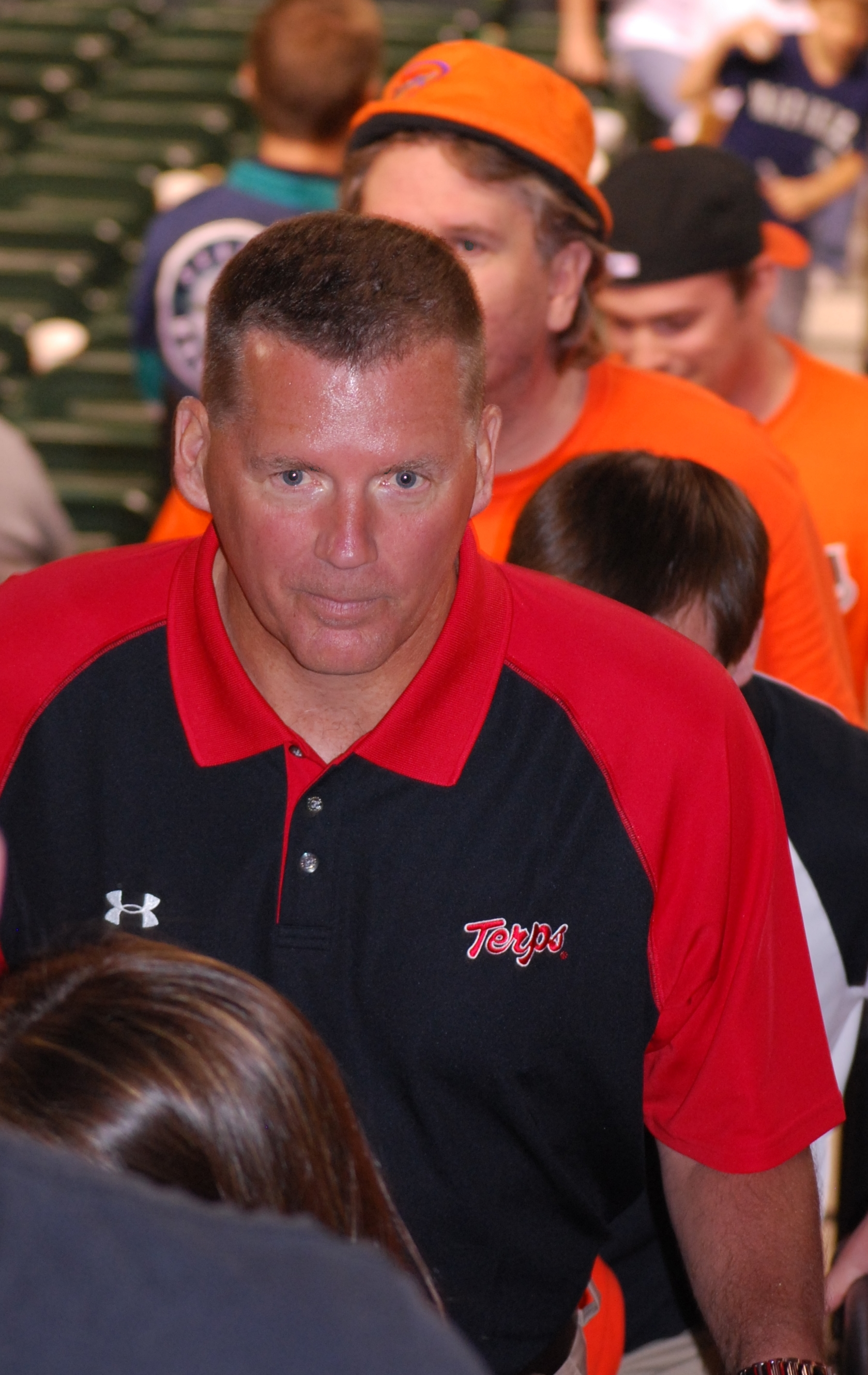 Rangoon at an Orioles' game at Camden Yards.